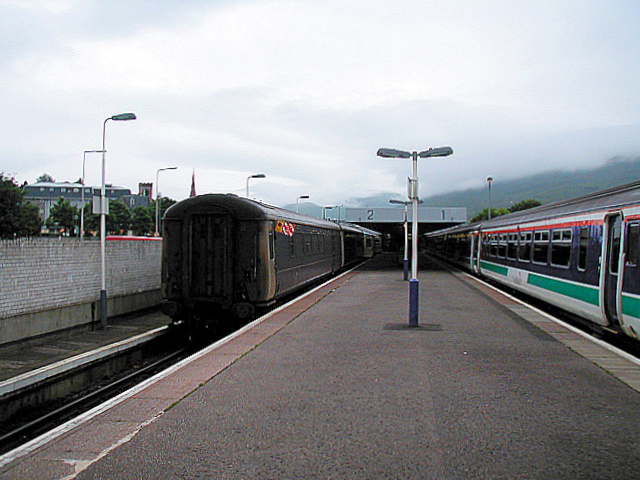 Sleeper going nowhere I was booked on the sleeper from Fort William to Crewe on 7th July 2005 but events in London on that day resulted in a major change to my journey. There was much disruption to rail transport and the sleeper trains between Scotland and London were cancelled. Intending passengers were accommodated in the sleeper cabins but the train remained stationary in the platform. I resumed my journey the next day on day service trains and arrived home about 12 hours later than expected. This picture was taken at about 21:15, nearly an hour and a half after the scheduled departure time.